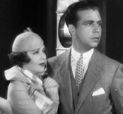 Frame from public domain trailer for 1933 Warner Bros. film Gold Diggers of 1933 showing Ruby Keeler and Dick Powell